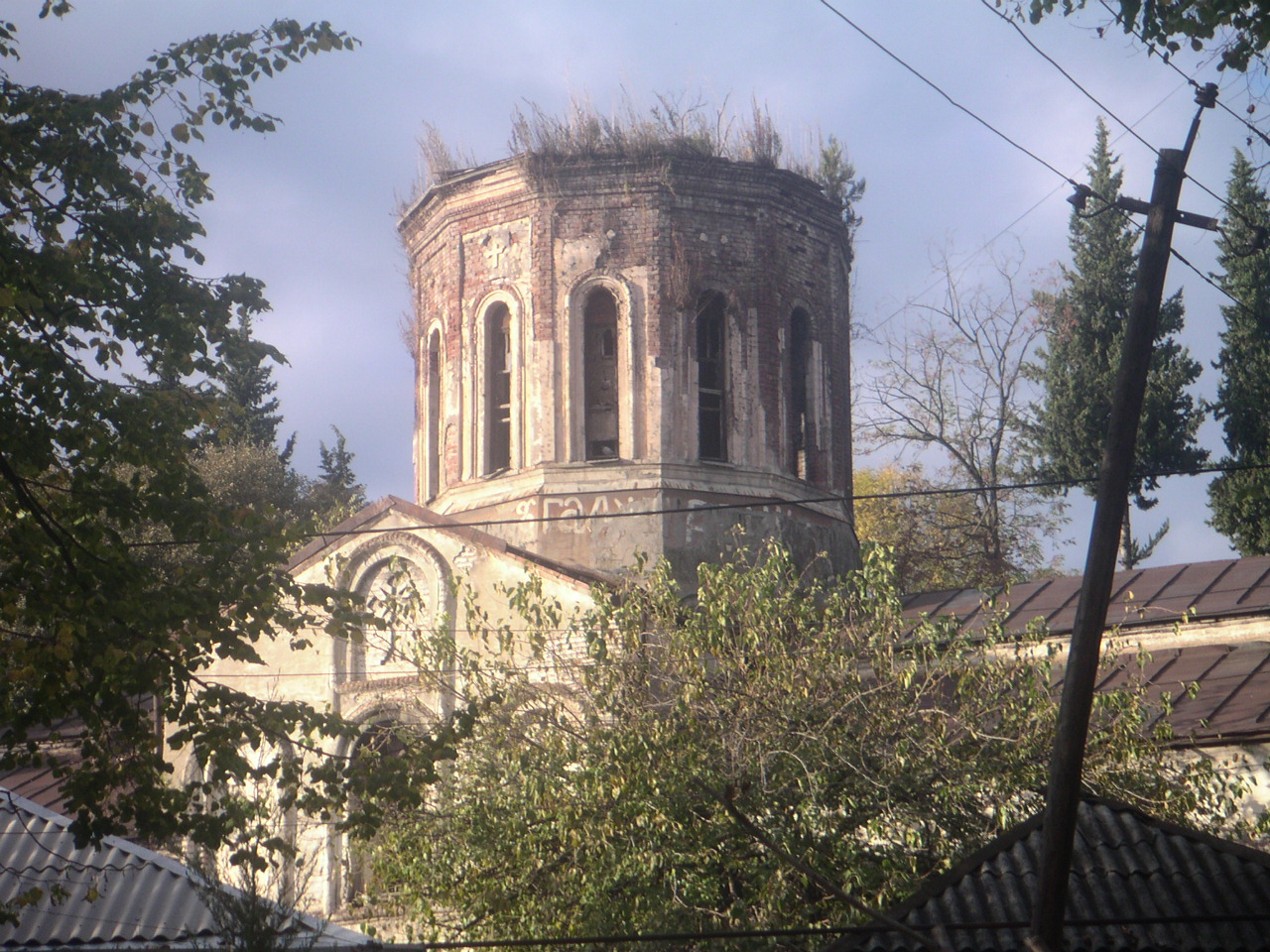 A ruined Georgian church in Zaqatala, Azerbaijan. I took the photo myself while on vacation in November 2007.